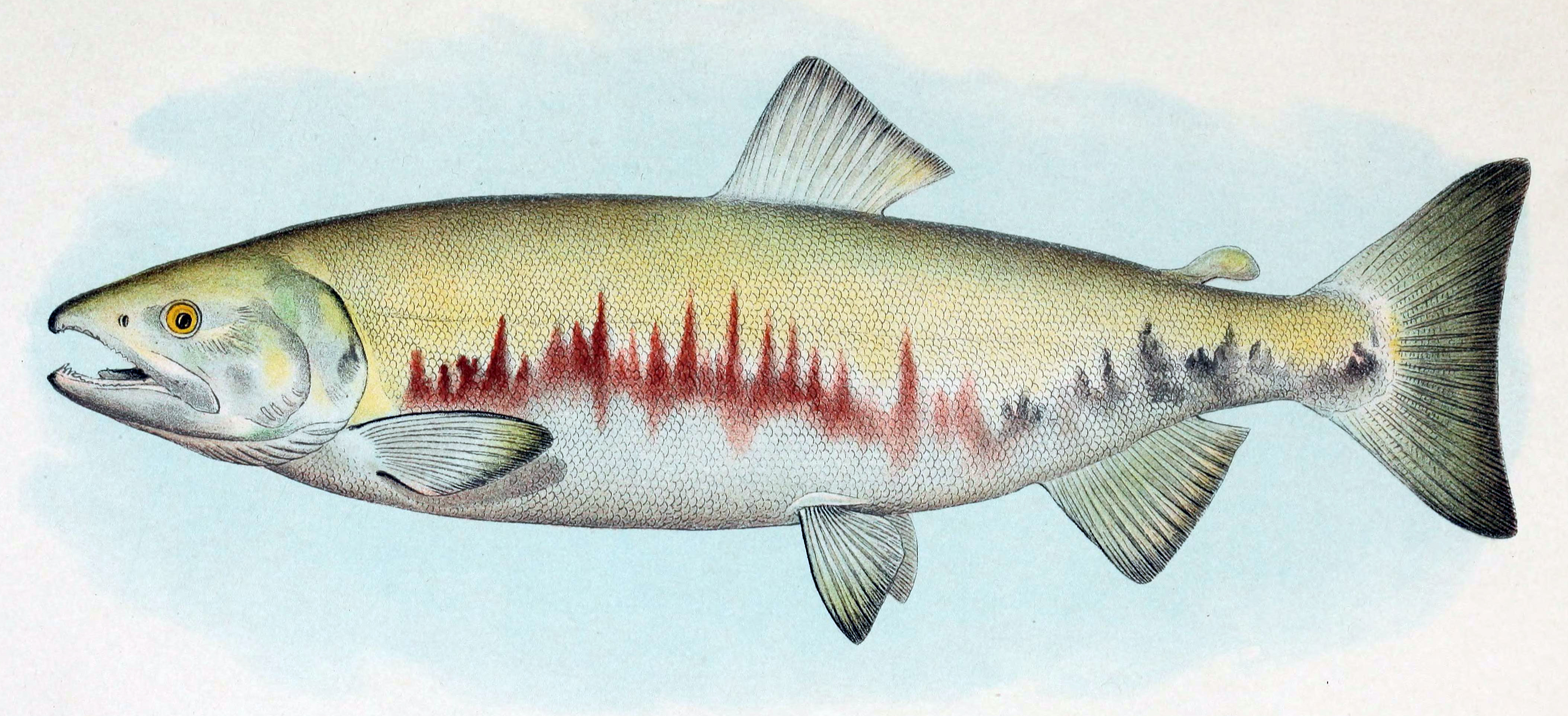 Dog Salmon, Breeding Female